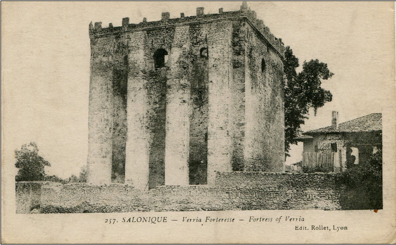 Verria fortress